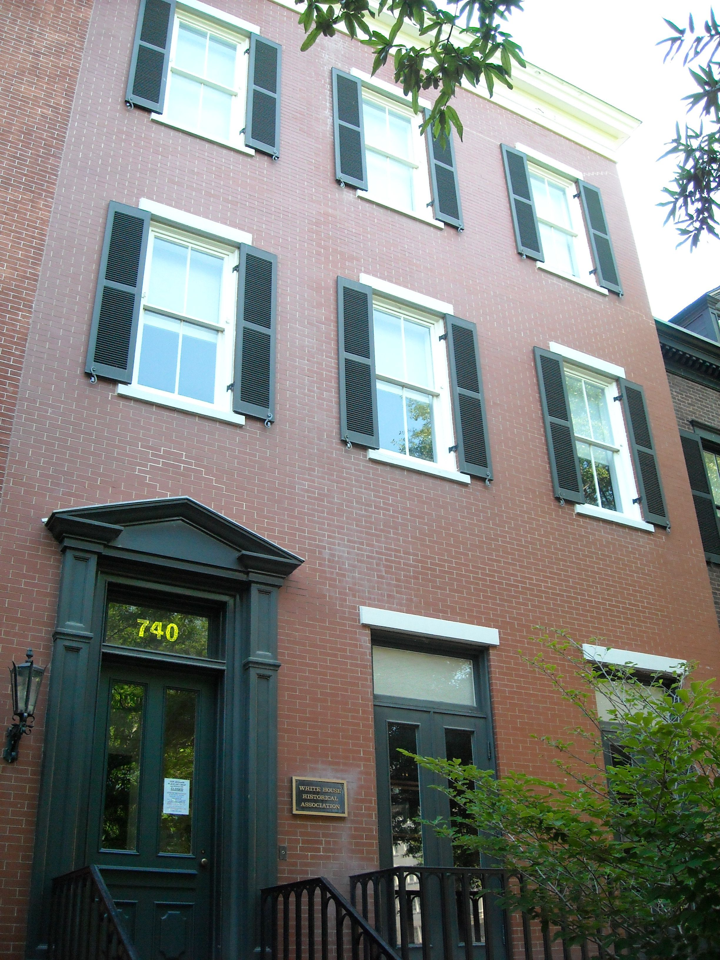 The White House Historical Association offices located at 740 Jackson Place, NW in Lafayette Square, Washington, D.C.